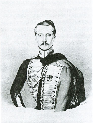 Alexey Nikolaevich Woolf (1805-1881) - A.S.Pushkin's and Н. M.Jazykov's friend . A water colour. 1830th.